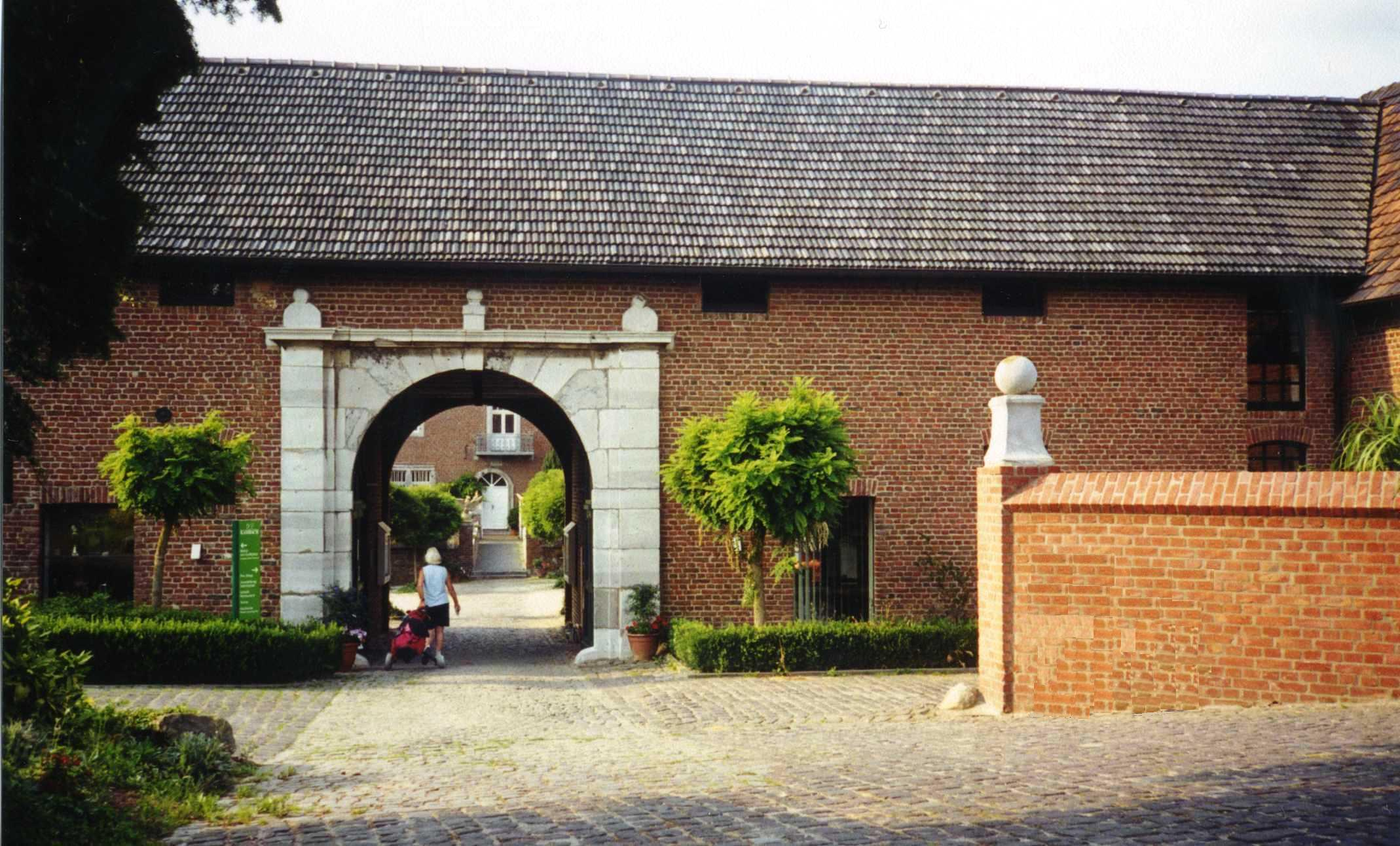 Vorburg of Haus Kambach in Kinzweiler, a district of Eschweiler.